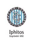 Logo des MTTC Iphitos